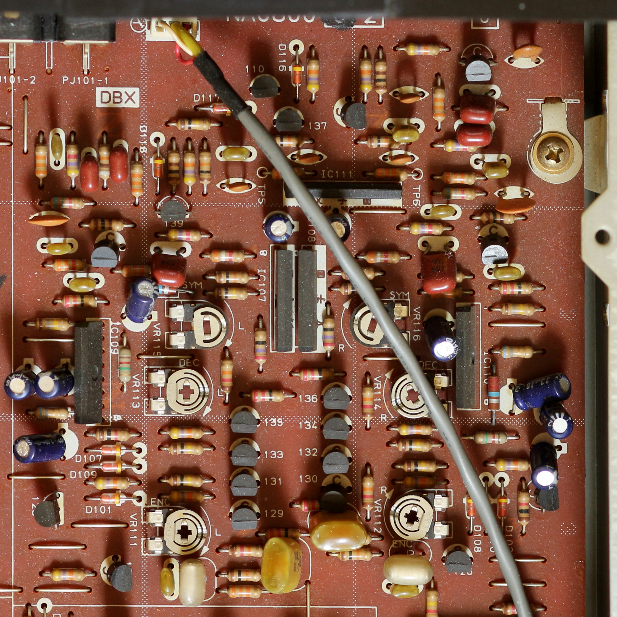 The Yamaha K-1000 cassette deck - dbx board